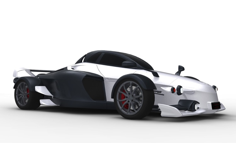 a.d.Tramontana V10 version